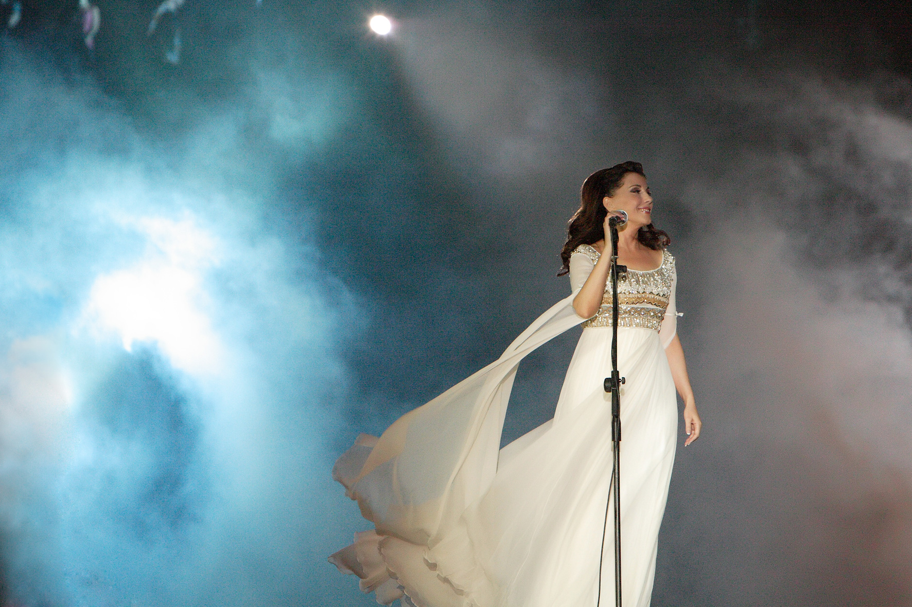 Majida El Roumi during her concert at the American University of Beirut, green field.